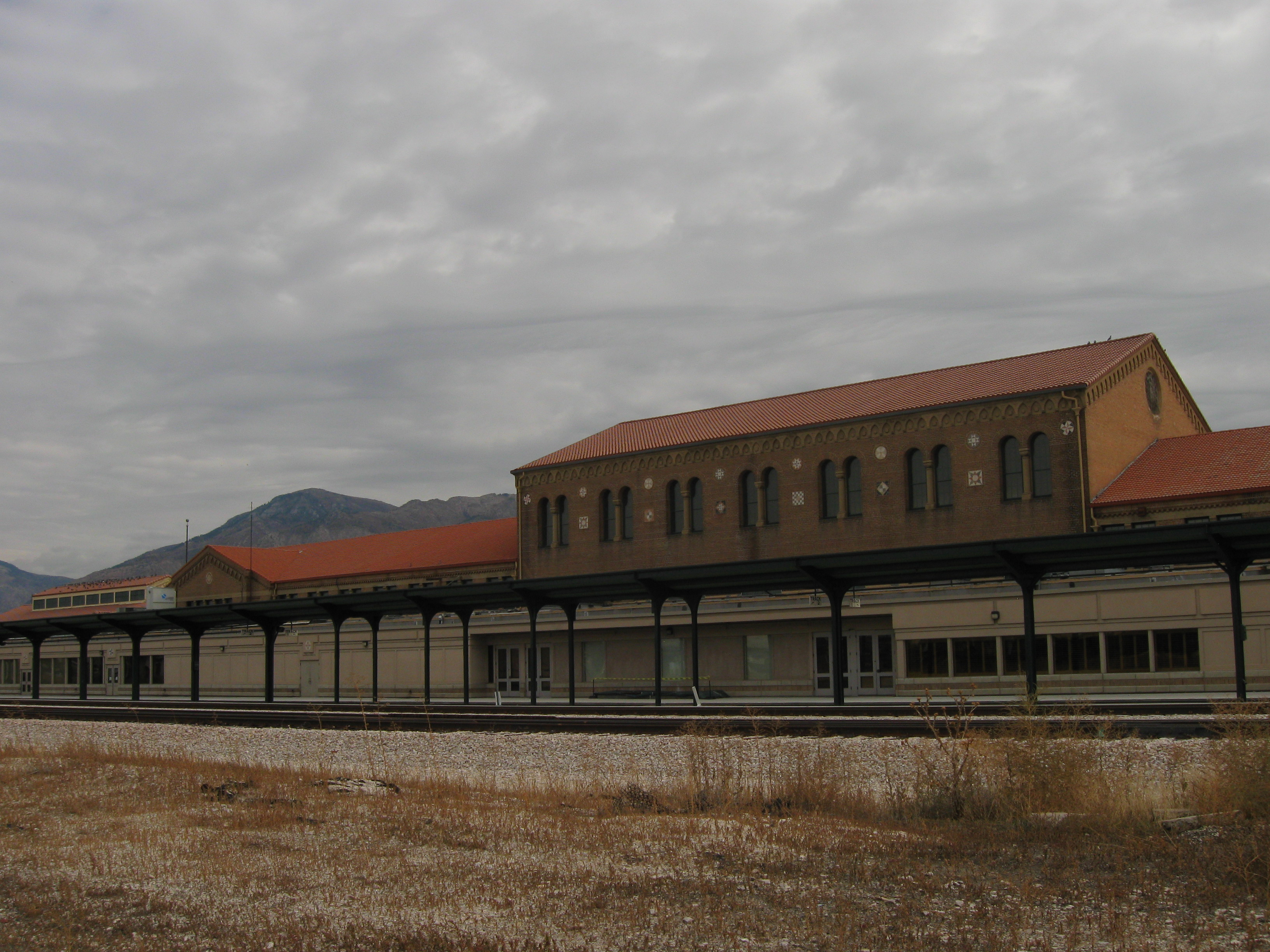 The passenger side of the Ogden, Utah, Union Station. Looking east.